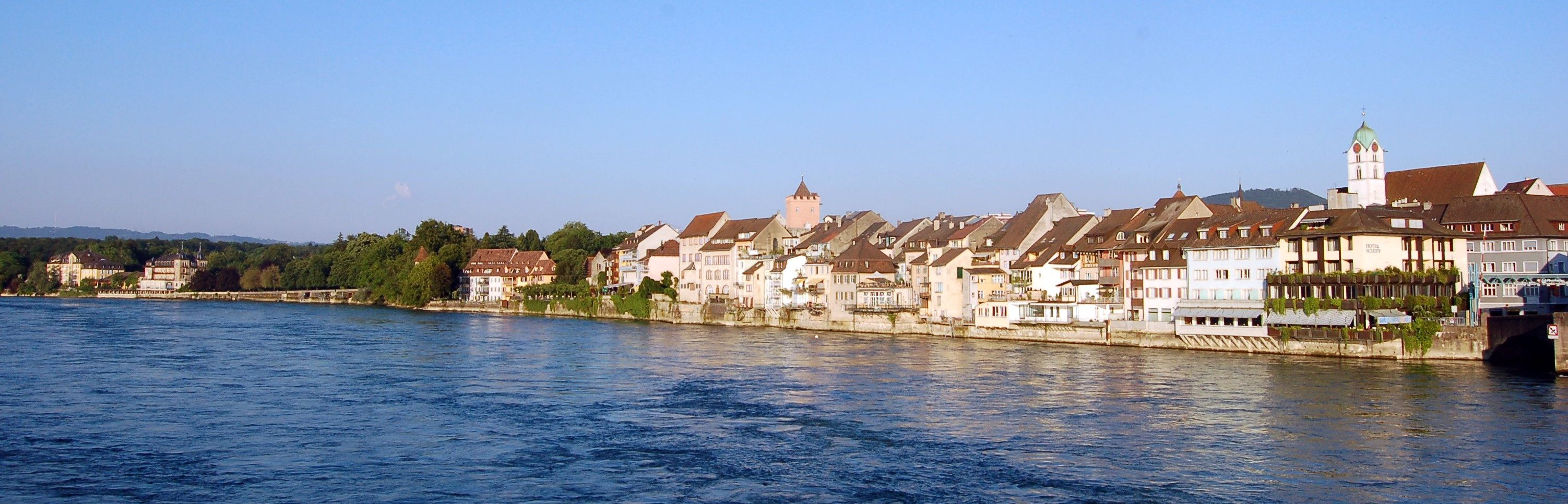 The old part of Rheinfelden, Switzerland photografed from the german part of the old Rhine bridge